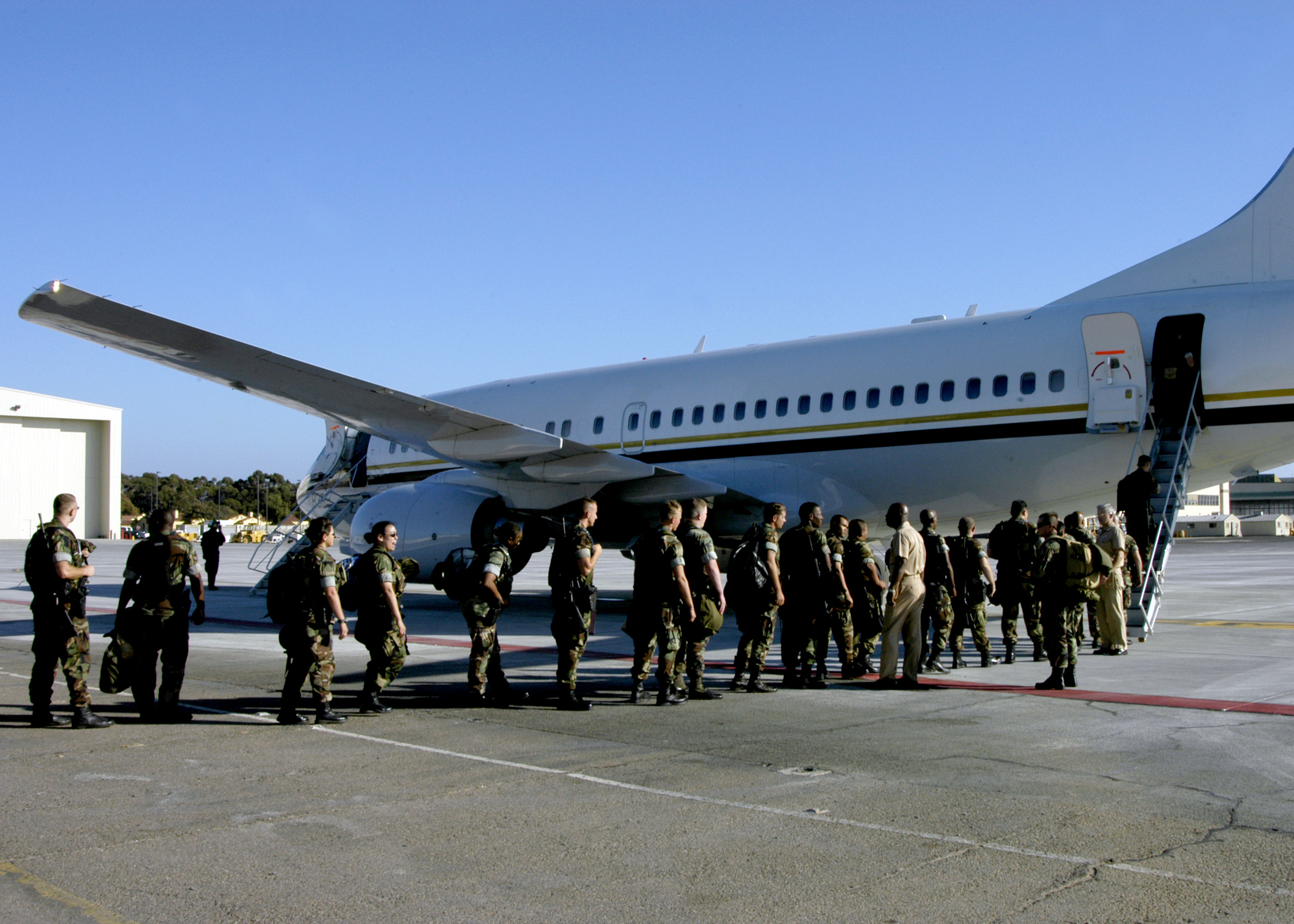 A C-40A Clipper from Fleet Logistics Support Squadron (VR) 57, in Coronado, California